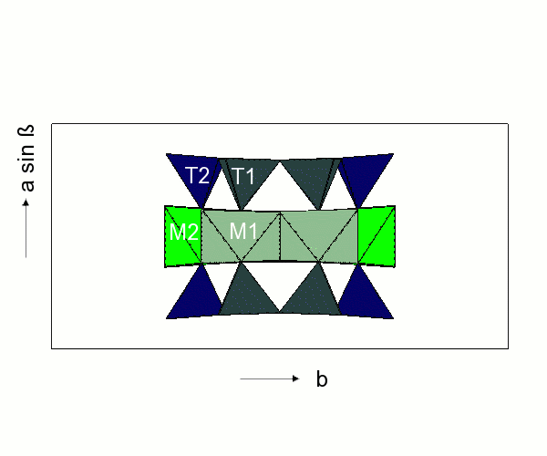 Amphibole structure: I-beam author: W. Bubenik